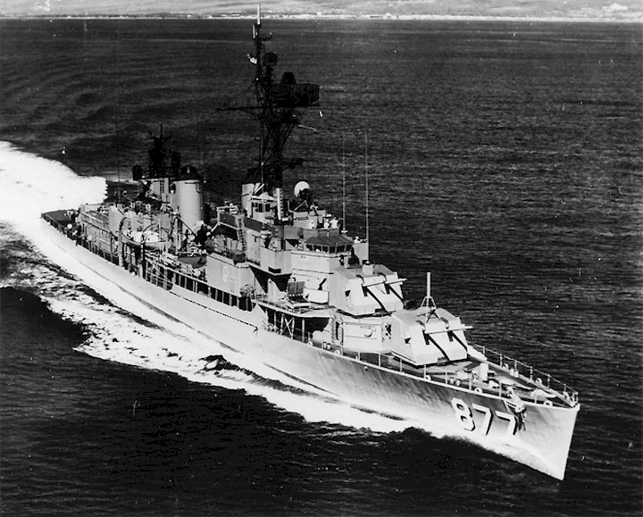 The U.S. Navy destroyer USS Perkins (DD-877) underway following her FRAM II modernization, circa the mid-1960s.